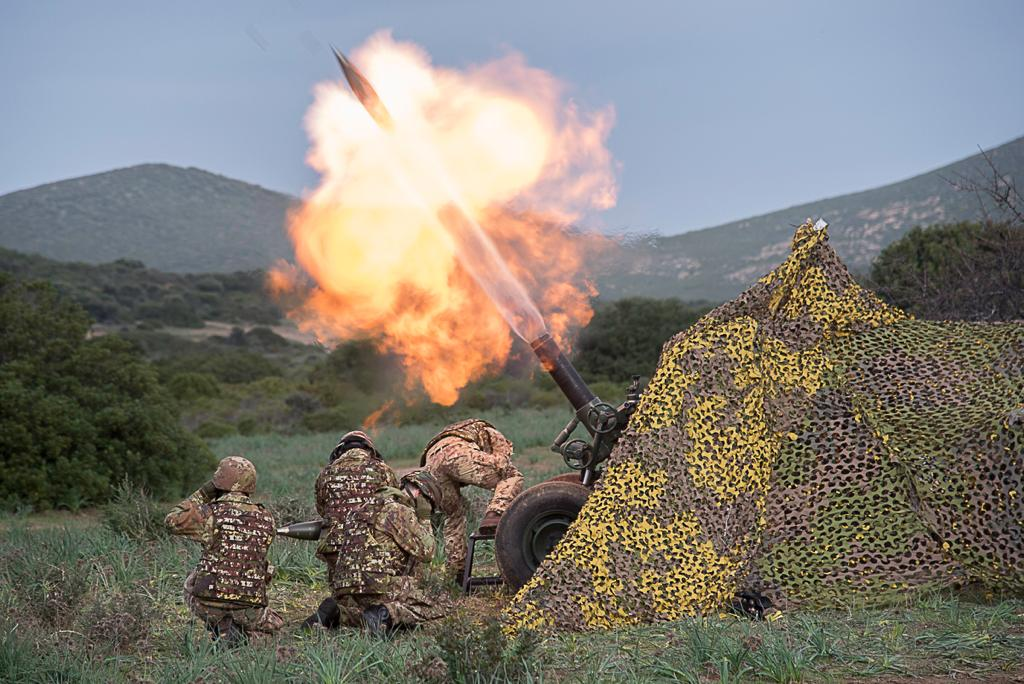 Italian Army 151st Infantry Regiment "Sassari" mortar team